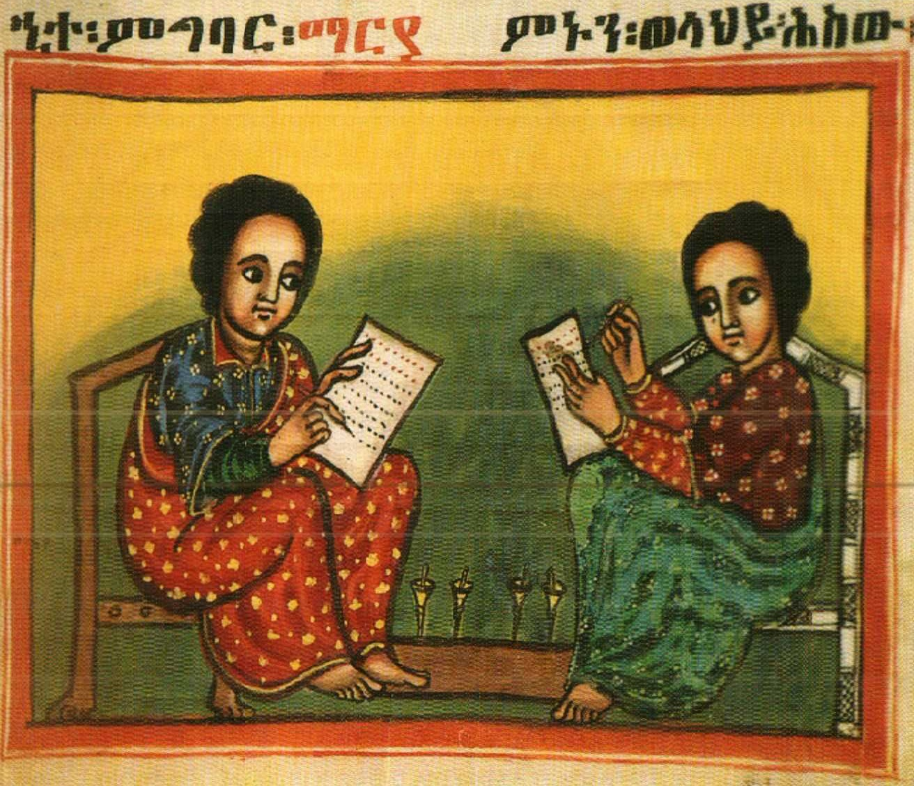 Illuminated manuscript from Aksum showing two scribes.